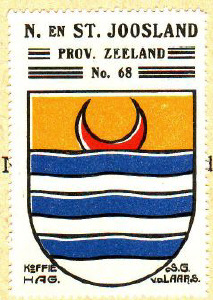 Coat of arms of Nieuw- en Sint-Joosland (Netherlands)